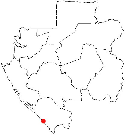 Mayumba, Gabon Location Map; created with the GIMP. Made by User:Acntx.